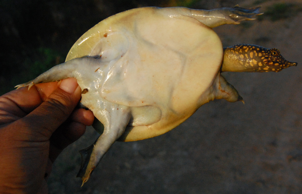 Amyda cartilaginea juvenile, ventral view of the body. From Mentaya Hulu, Central Kalimantan, Indonesia.